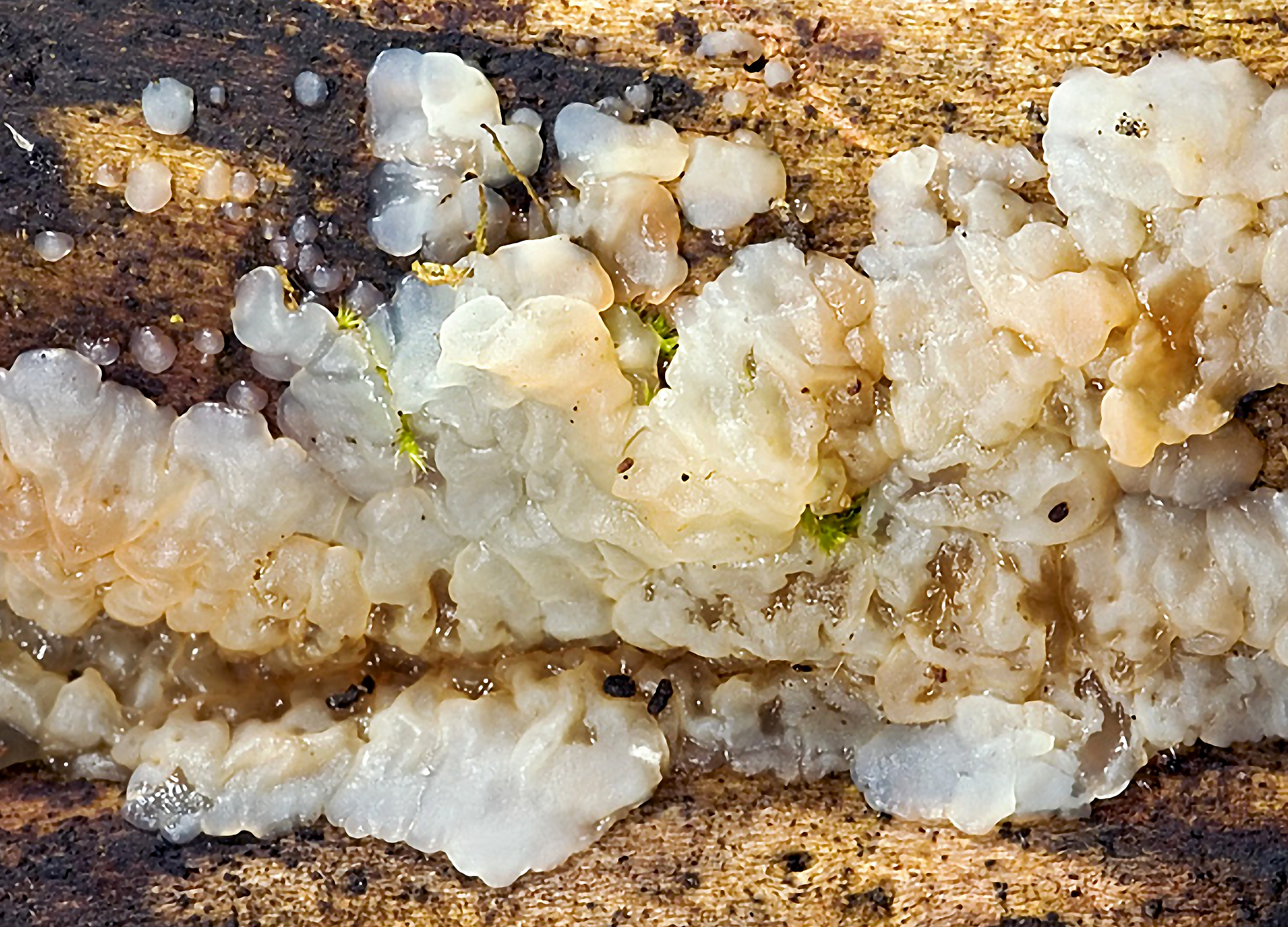 Exidia thuretiana Location: near village Kopriva, Kras, Slovenia Observation Notes: Exidia cartilaginea Date: Dec. 13. 2008 Lat.: 45.88833 Long.: 13.83885 Code: Bot_315/2008-5498 Habitat: Light mixed karst forest and bushes, predominantly oak, stony ground, limestone, shaded by tree canopies, N oriented, cca. 1 m above ground, partly protected from rain, precipitations 1.500 -1.600 mm/year, average temperature 10-12 deg C, altitude 280 m (920 feet), submediterranean phytogeographical region. Substratum: partly debarked rotten trunk of a thick Hedera helix climbing a Quercus petraea and cut at the bottom by men. Nikon D70 / Nikorr Micro 105mm/f2.8 / Nikon R1 Macro flash Metz 45CL-3 flash For more information about this, see the observation page at Mushroom Observer.